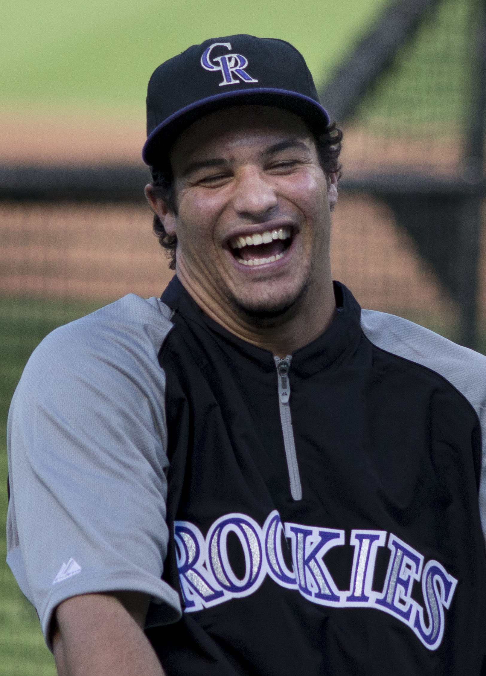 Major League Baseball player Nolan Arenado of the Colorado Rockies before a game against the Orioles in Baltimore, 17 August 2013.